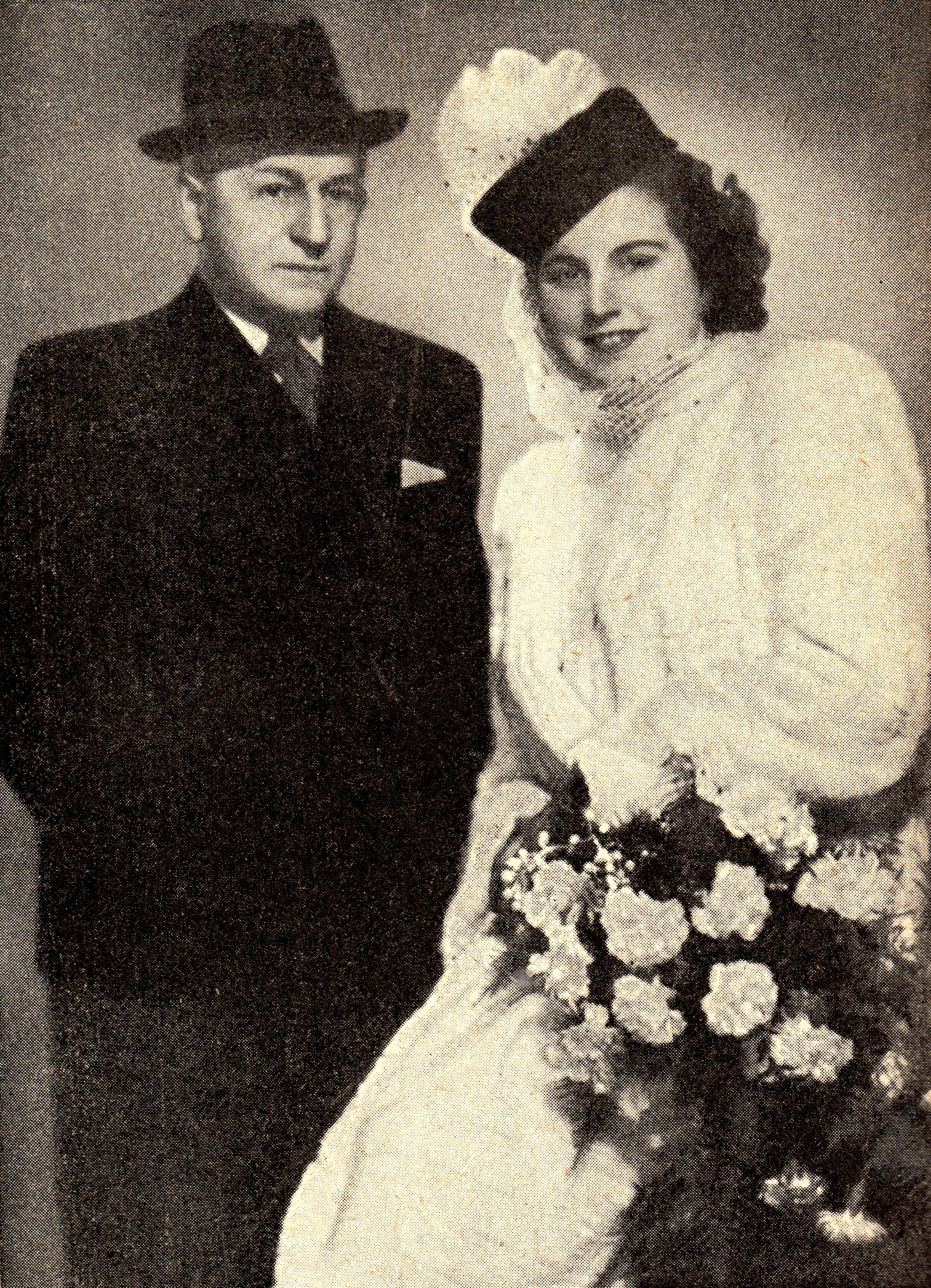 Helena, second wife of František Zavřel